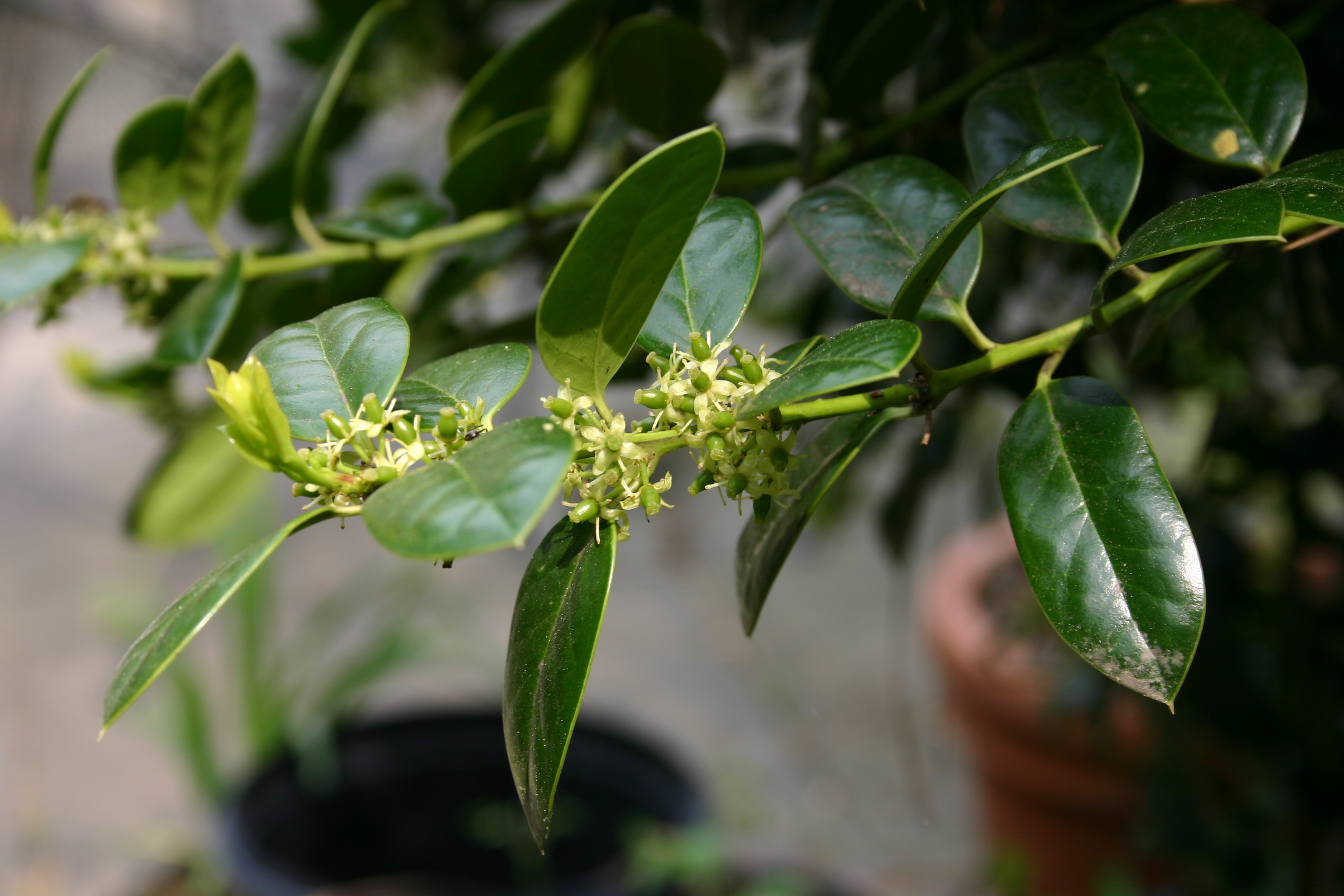 flowers of Ilex cornuta 'burfordii